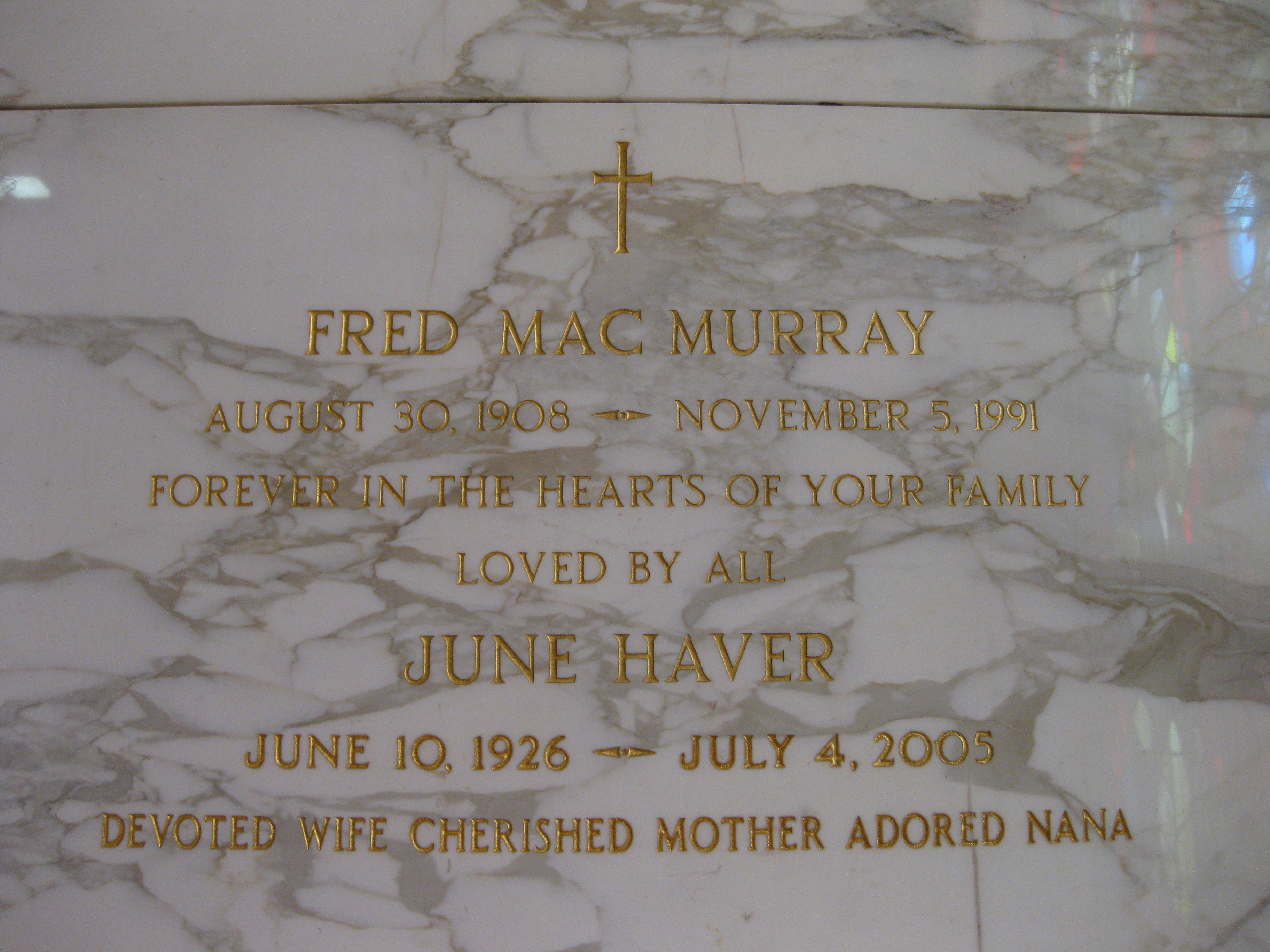 Grave of actor Fred MacMurray and actress June Haver at Holy Cross Cemetery in Culver City, California (mausoleum, room 7, crypt D1). Frederick Martin "Fred" MacMurray was born August 30, 1908 in Kankakee, Illinois. He appeared in more than 100 movies and a successful television series from 1930 to the 1970s. He is well known for his role in the 1944 film Double Indemnity and as Steve Douglas in the television series My Three Sons (1960–72). He has a star on the Hollywood Walk of Fame and was the first person honored as a Disney Legend (in 1987). June Haver was born June 10, 1926 in Rock Island, Illinois. She was a star of musicals produced by 20th Century Fox in the late 1940s, including The Dolly Sisters (1945), and played Marilyn Miller in Look for the Silver Lining (1949). She has a star on the Hollywood Walk of Fame. MacMurray and Haver married in 1954, the second marriage for both: MacMurray's previous wife, Lillian Lamont, had died in 1936, leaving him with two adopted children; Haver had divorced trumpt player James Zito in 1948, after a year of marriage. MacMurray and Haver adopted twin girls. After suffering from leukemia for more than a decade, and recovering from a major stroke suffered in 1988, MacMurray died of pneumonia on November 5, 1991 in Santa Monica, California at age 83. Haver did not remarry, and died of respiratory failure on July 4, 2005 in Brentwood, California at age 79. She was interred with her husband.